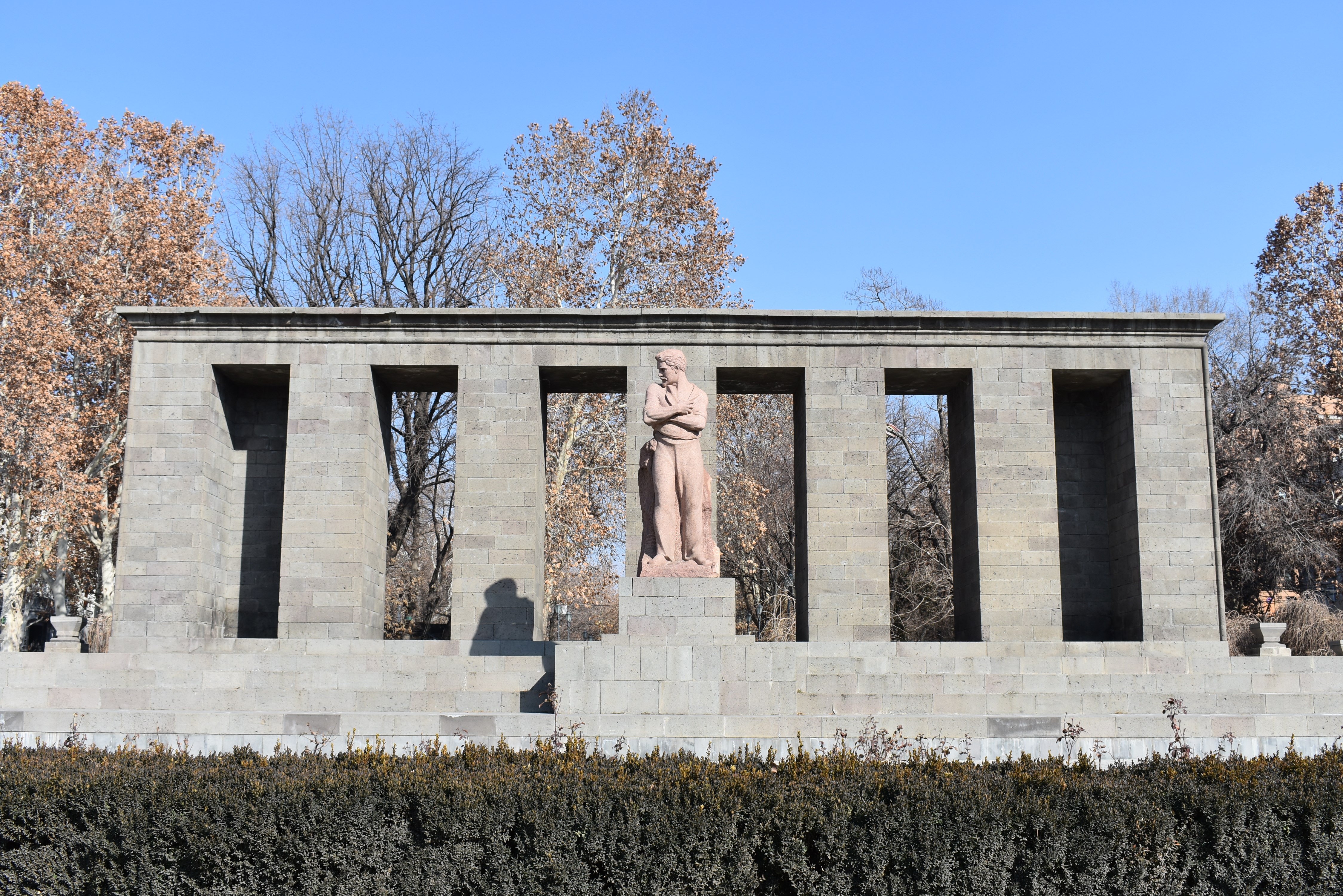 Stepan Shaumian